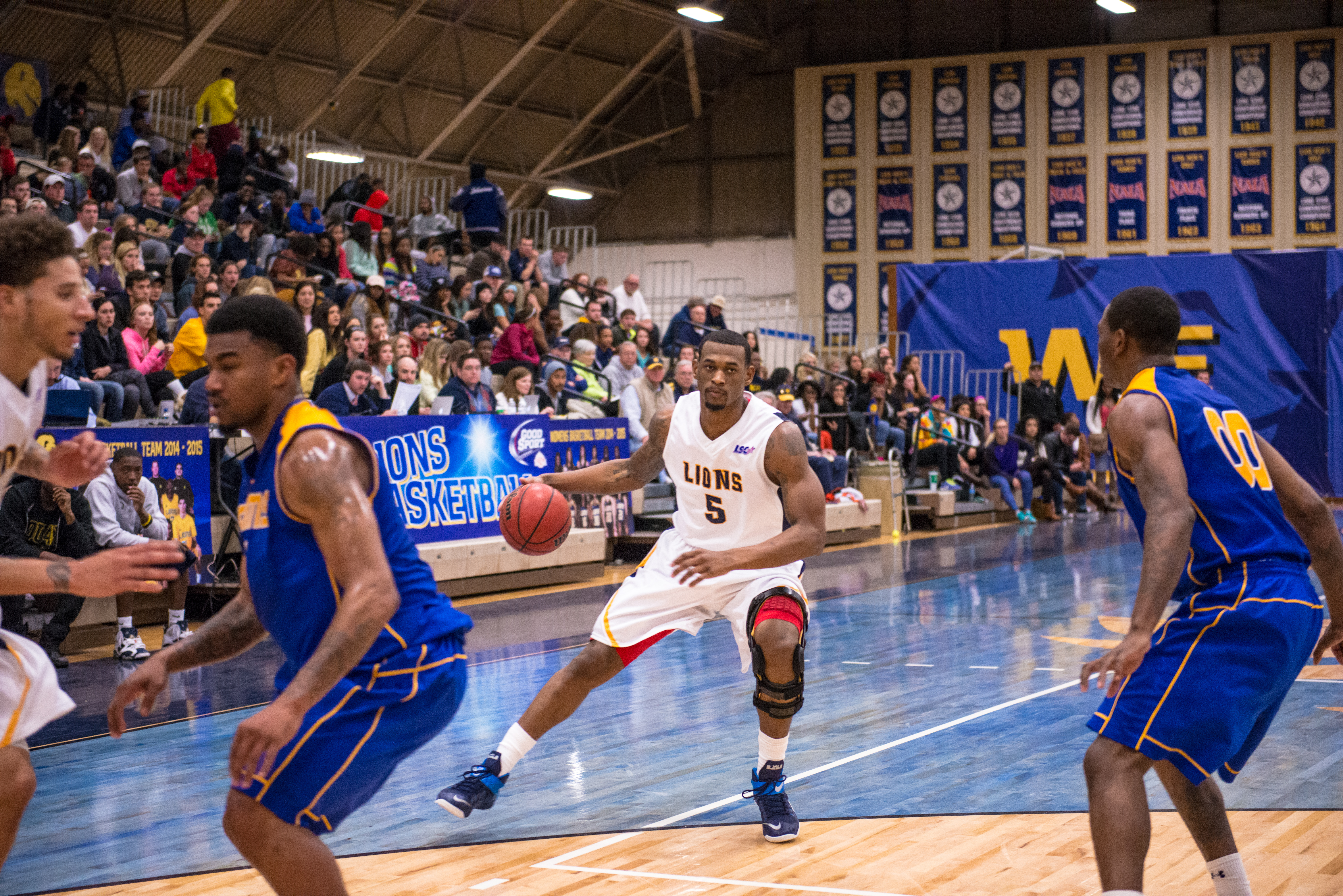 athletics-MBSK vs ASU-8855.jpg 2013–14 Texas A&M–Commerce Lions men's basketball team